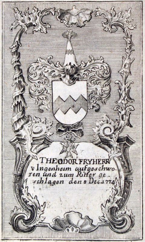 Wappen der Freiherrn von Ingenheim